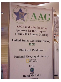 Sign illustrating that AAG partners with other organizations.